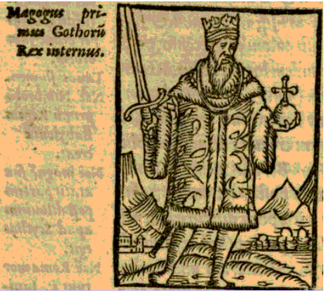 Illustration of Magog son of Japheth, legendary first king of Sweden from book by Johannes Magnus (1488-1544)